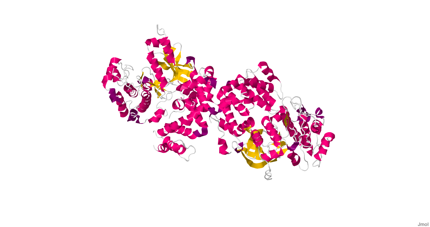 G Protein-coupled Receptor Kinases (as bound to ATP and Magnesium chloride)